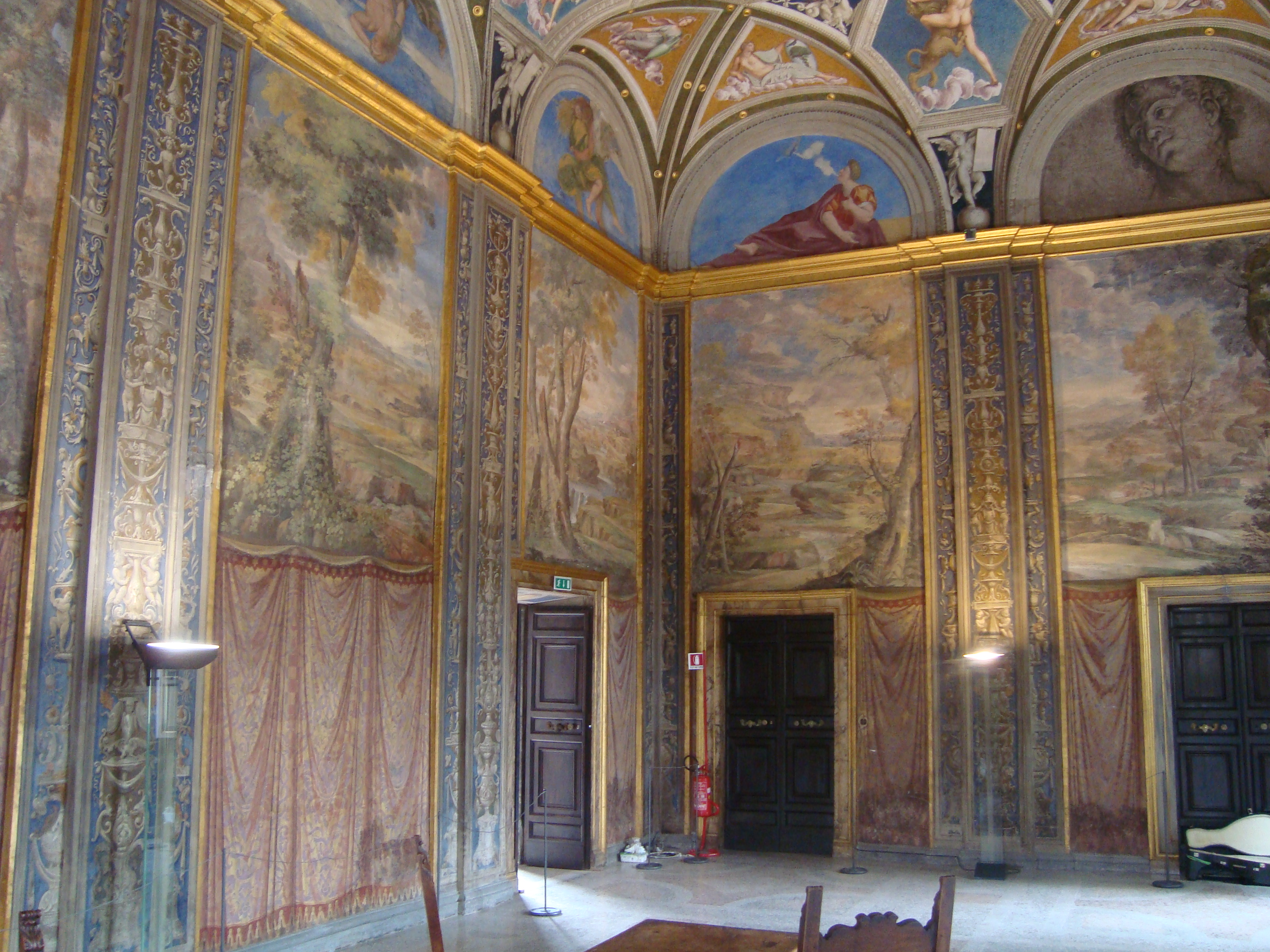 Villa Farnesina, Rome